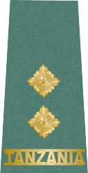 First Lieutenant (Tanzania Army OF-01A)